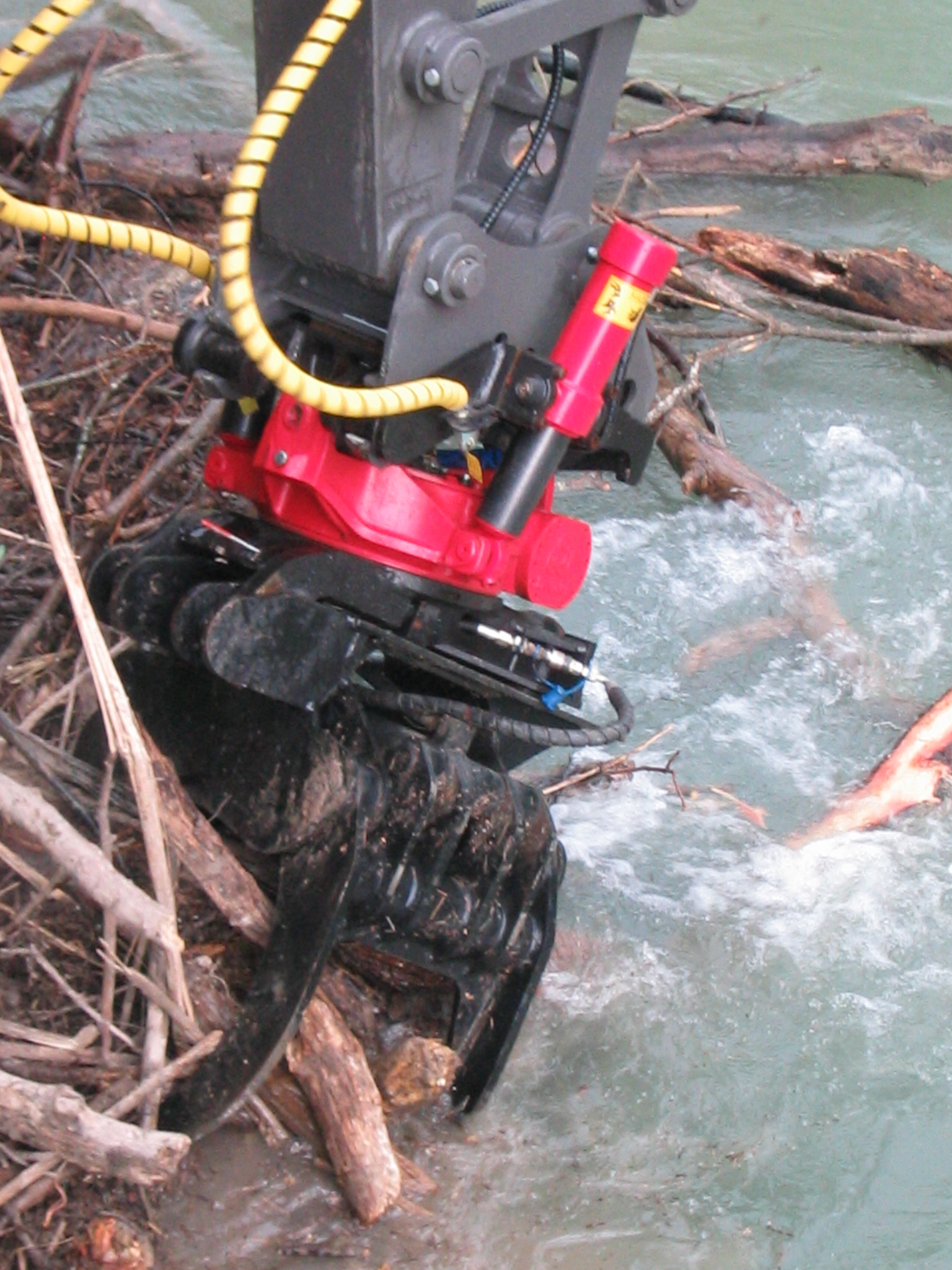 Rototilt with grapple.